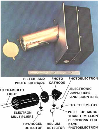 Pioneer 10 - Ultraviolet Photometry